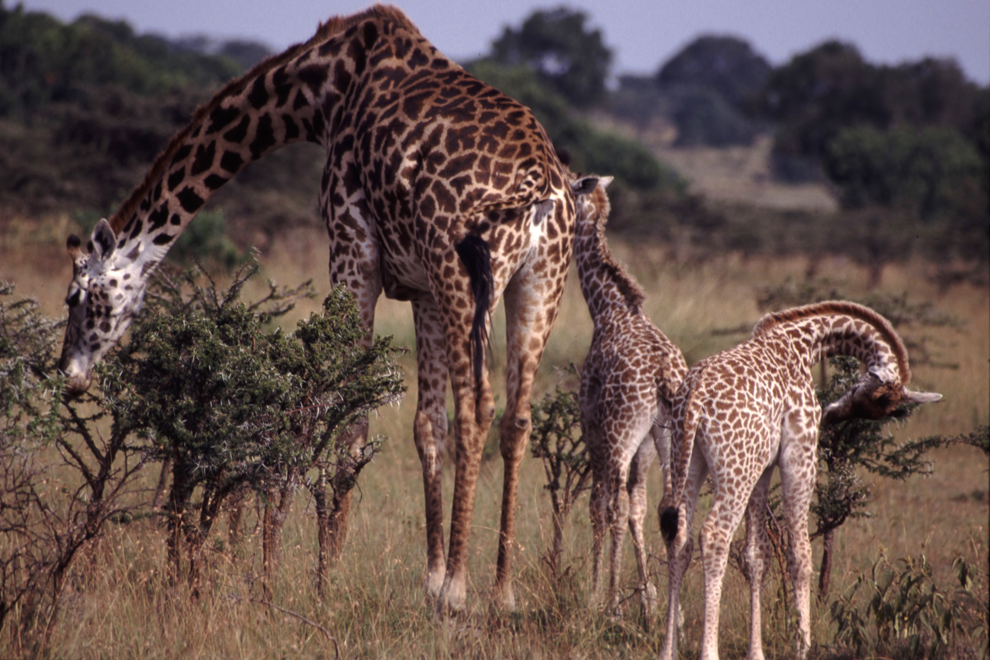 Mother giraffe and two young giraffes feeding. Taken on safari in Kenya on slide film. Scanned in 2006 and cleaned up.